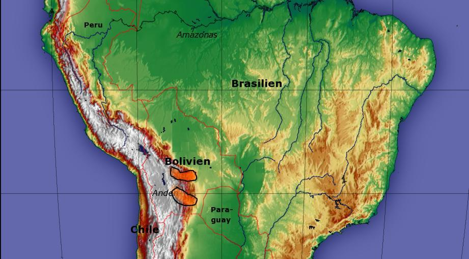 Topographic distribution of the Red-fronted Macaw (in german).